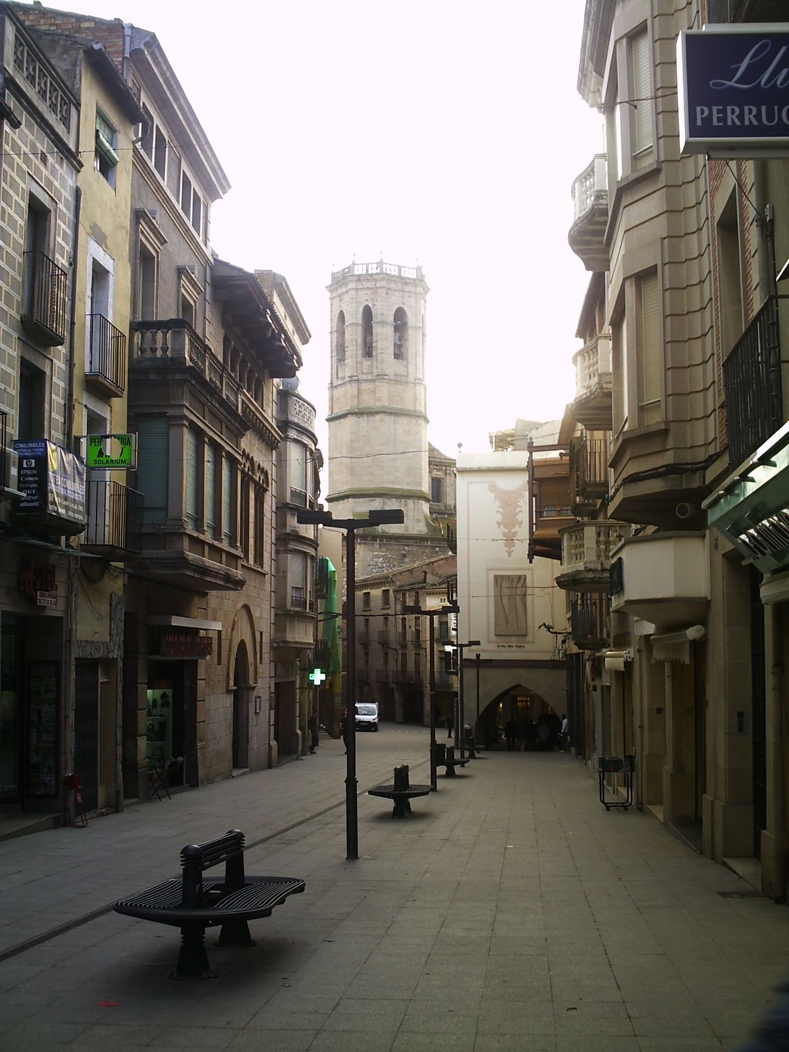 The emblematic street of Carme, probably the most known and frecuented one (in Tàrrega).